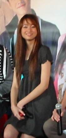 Kanya Rattanapetch at Press conf. of concert "Nokia Music Presents The Love of Siam Special Greeting"